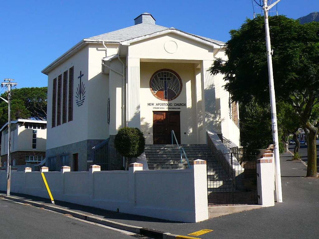 New Apostolic Church Vredehoek, Capetown, ZA